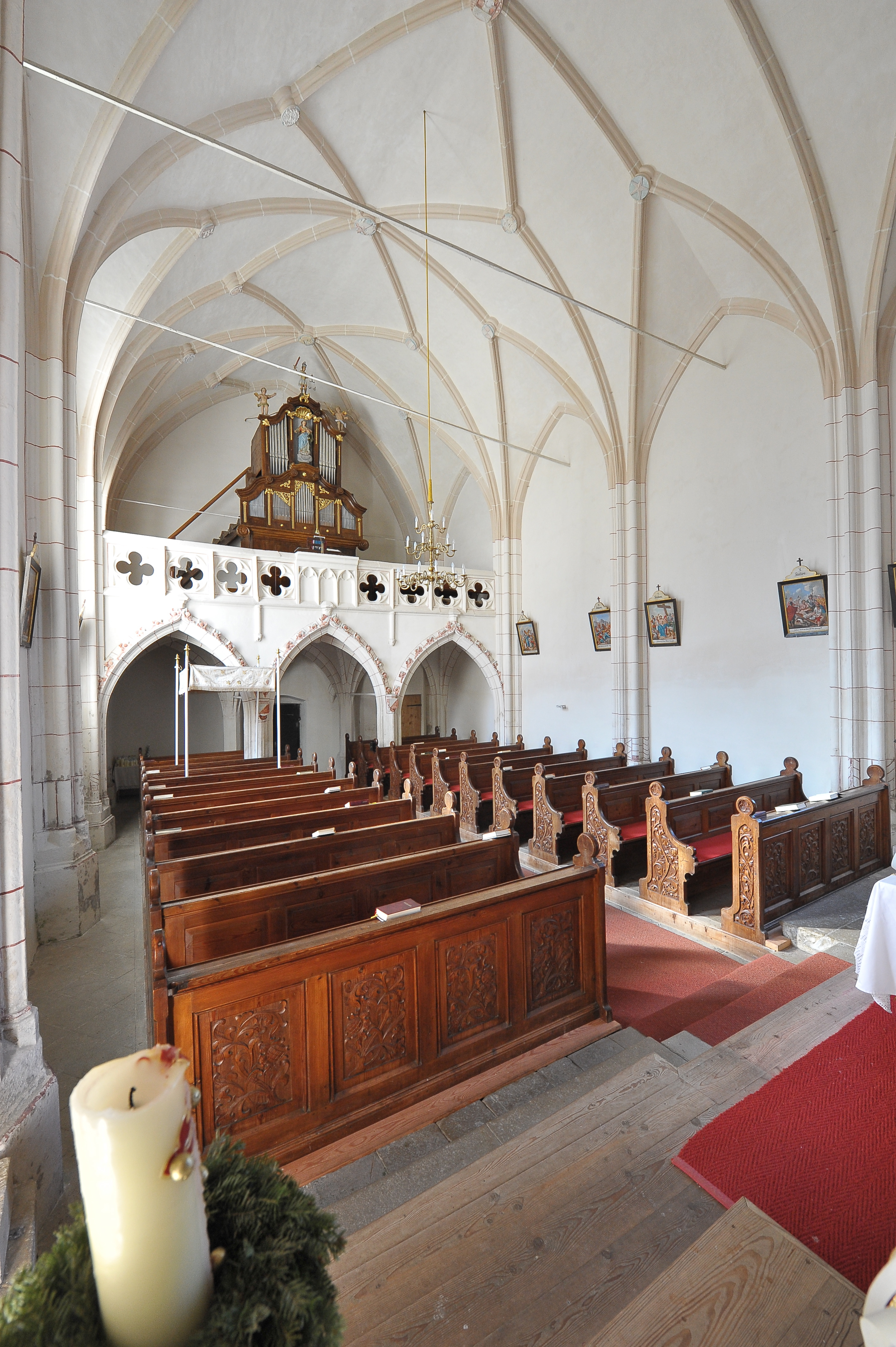 Nave and organ gallery of the parish church Saint Walpurga at Sankt Walburgen, municipality Eberstein (Kärnten), district Saint Veit on the Glan, Carinthia / Austria / EU